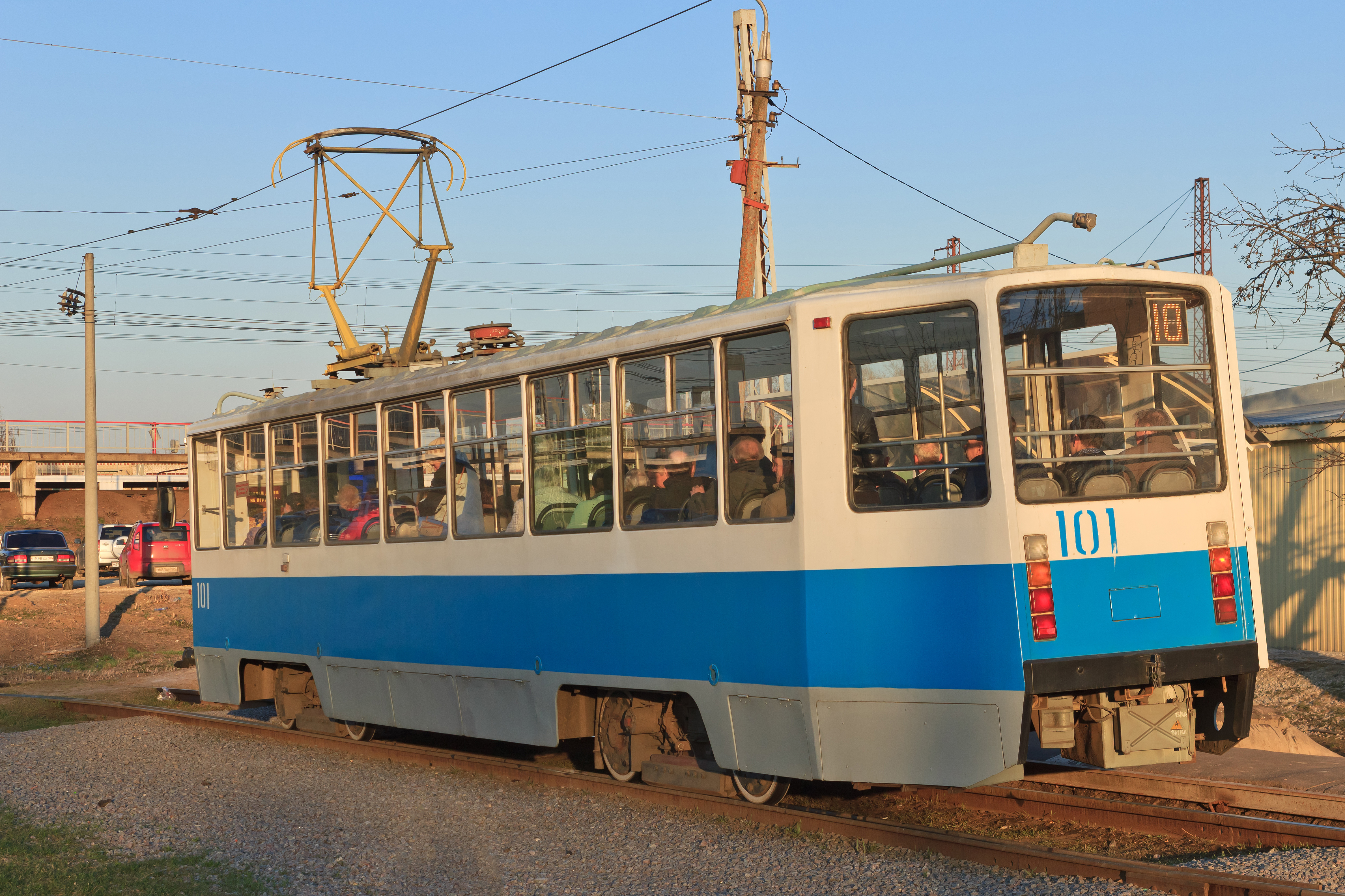 KTM-8 tram in Kolomna, Moscow Oblast, Russia.